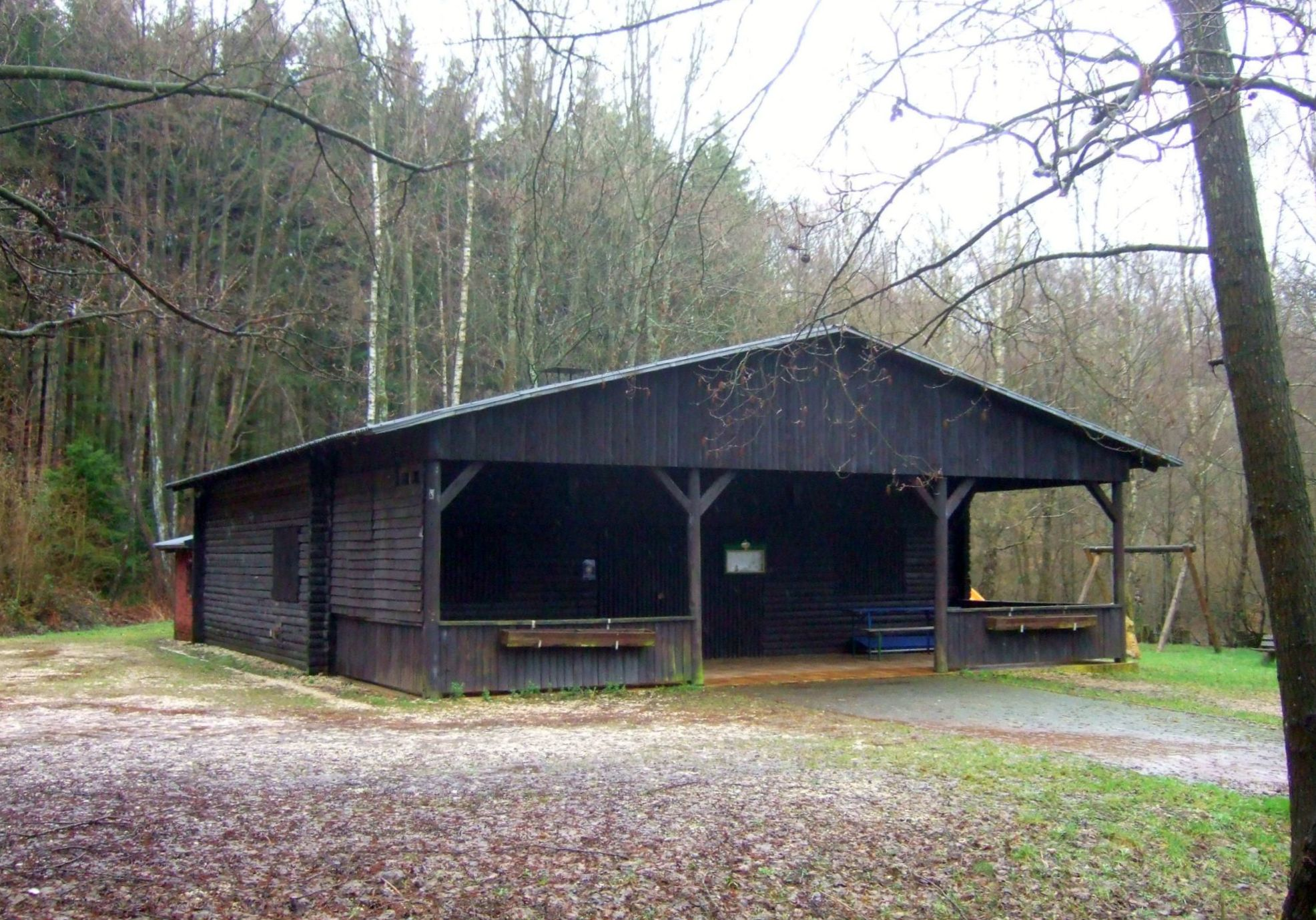 Beuren (Hochwald)